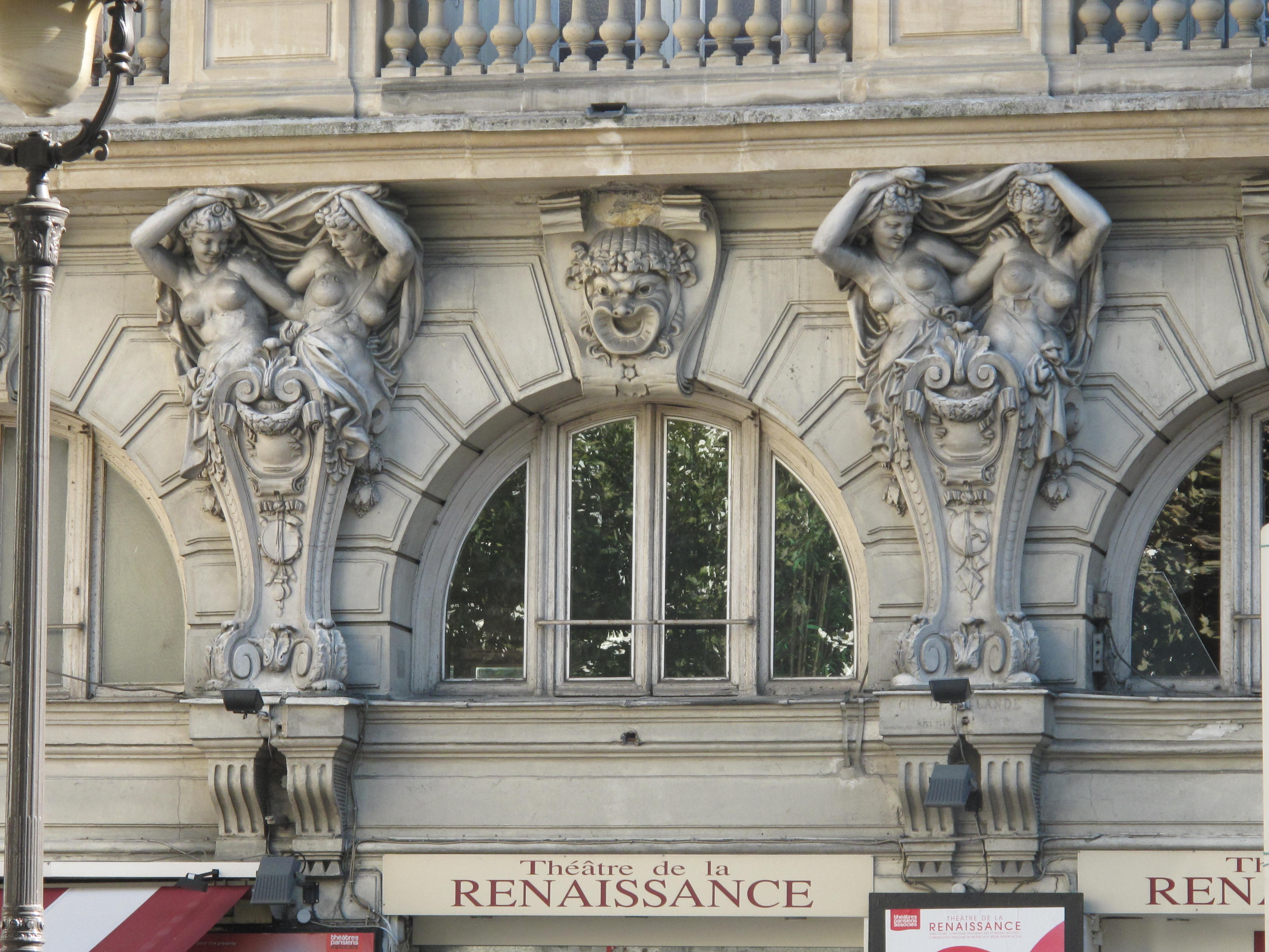 Caryatids on the facade of the théâtre de la Renaissance, 10th arr. Paris.